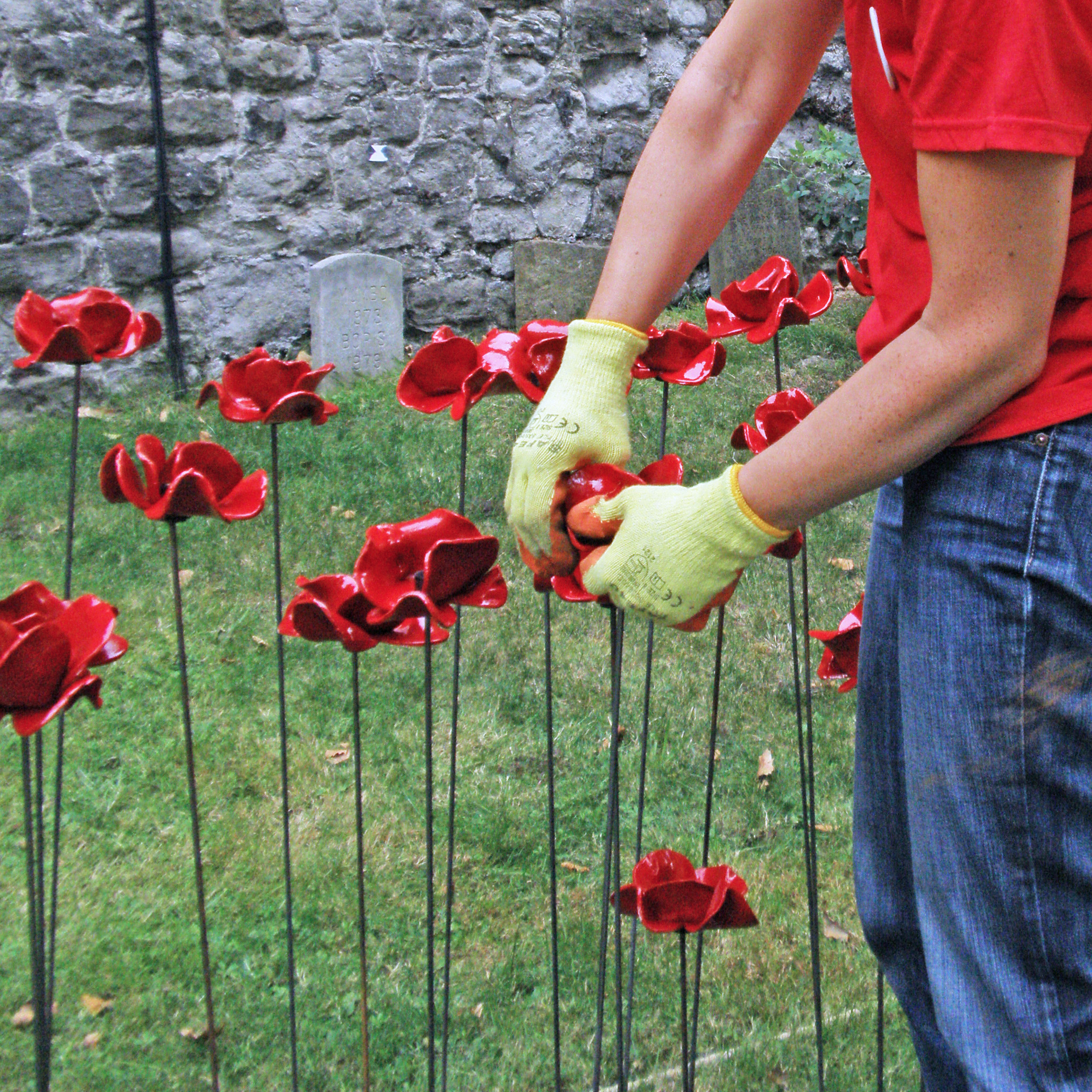 Tower of London Remembers. To mark the centenary anniversary of the First World War the Tower of London is creating an evolving art installation "Blood Swept Lands and Seas of Red". Formed of 888,246 ceramic poppies by artist Paul Cummins, with setting by stage designer Tom Piper, each poppy represents a British military fatality during the war. The installation was officially unveiled on 5 August 2014, one hundred years since the first full day of Britain's involvement in the First World War and will be in place until 11 November 2014. On 24 August I helped to build a just a little more of the installation by constructing and planting a batch of poppies. I believe it is now (as in these photos) about a quarter completed. Each poppy is a life lost - when it is completed maybe it will help to demonstrate the scale of those numbers which we really cannot imagine.